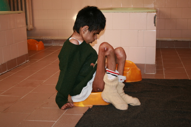 Vaska, from the documentary "Bulgaria's Abandoned Children"